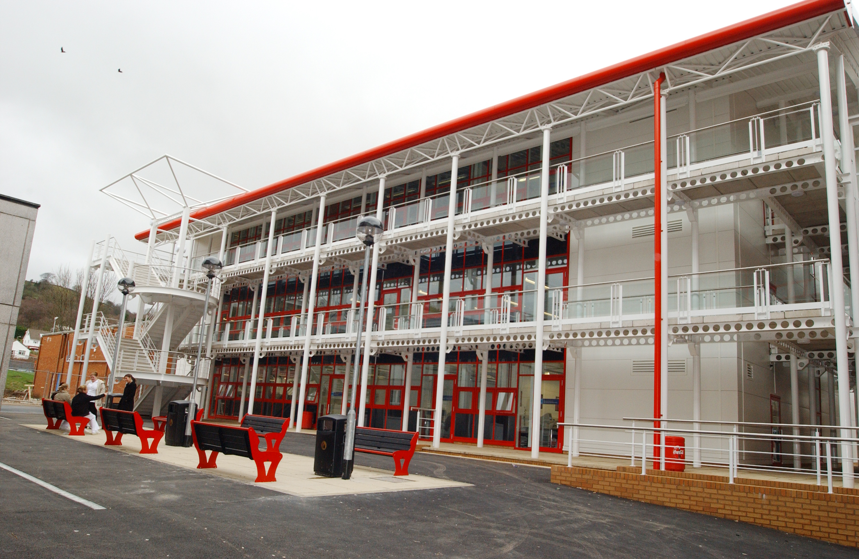 Image of The College Ystrad Mynach's D Block building 2004